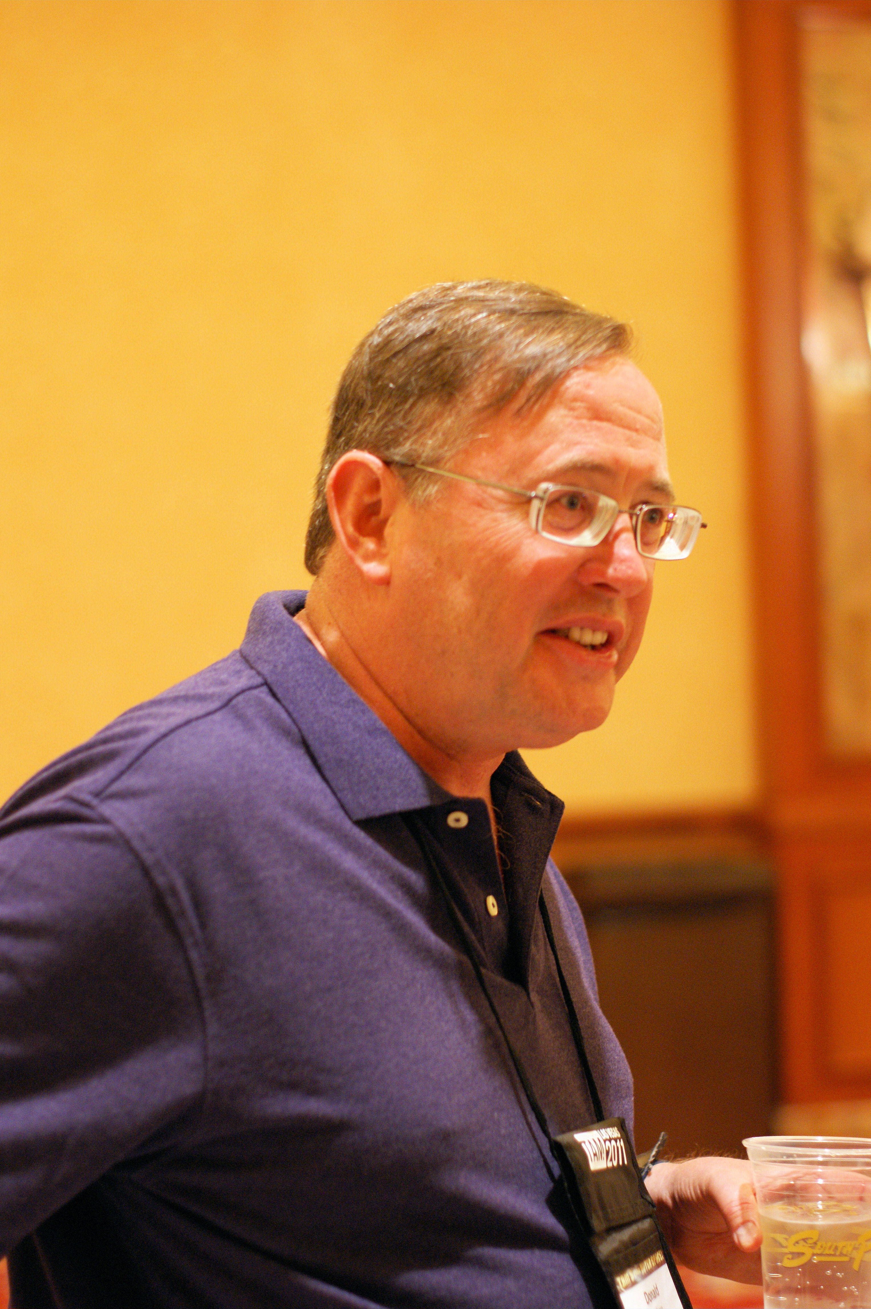 Donald Prothero at The Amaz!ng Meeting (TAM) 9 in July 2011 at Las Vegas, Nevada.